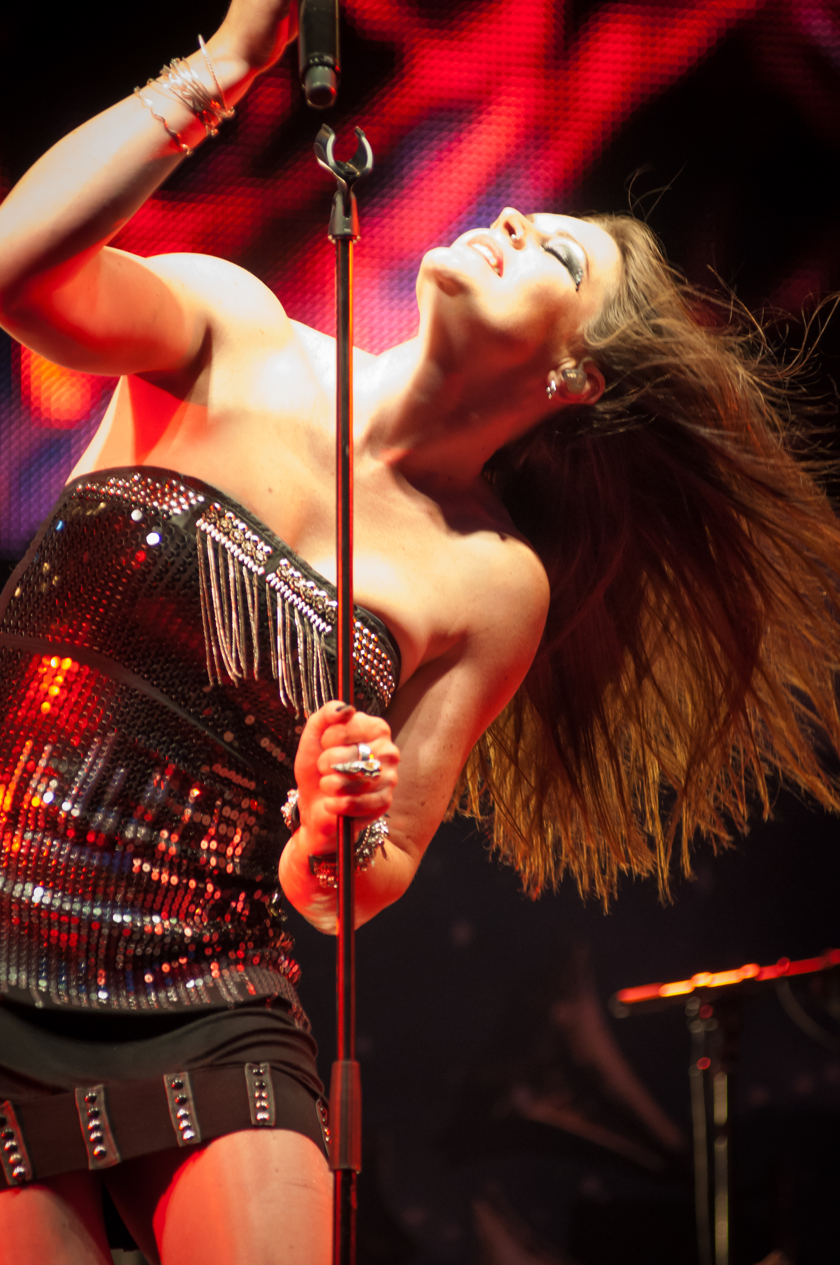 Dutch vocalist Floor Jansen of Nightwish performing at the 2013 Ilosaarirock festival in Joensuu, Finland.